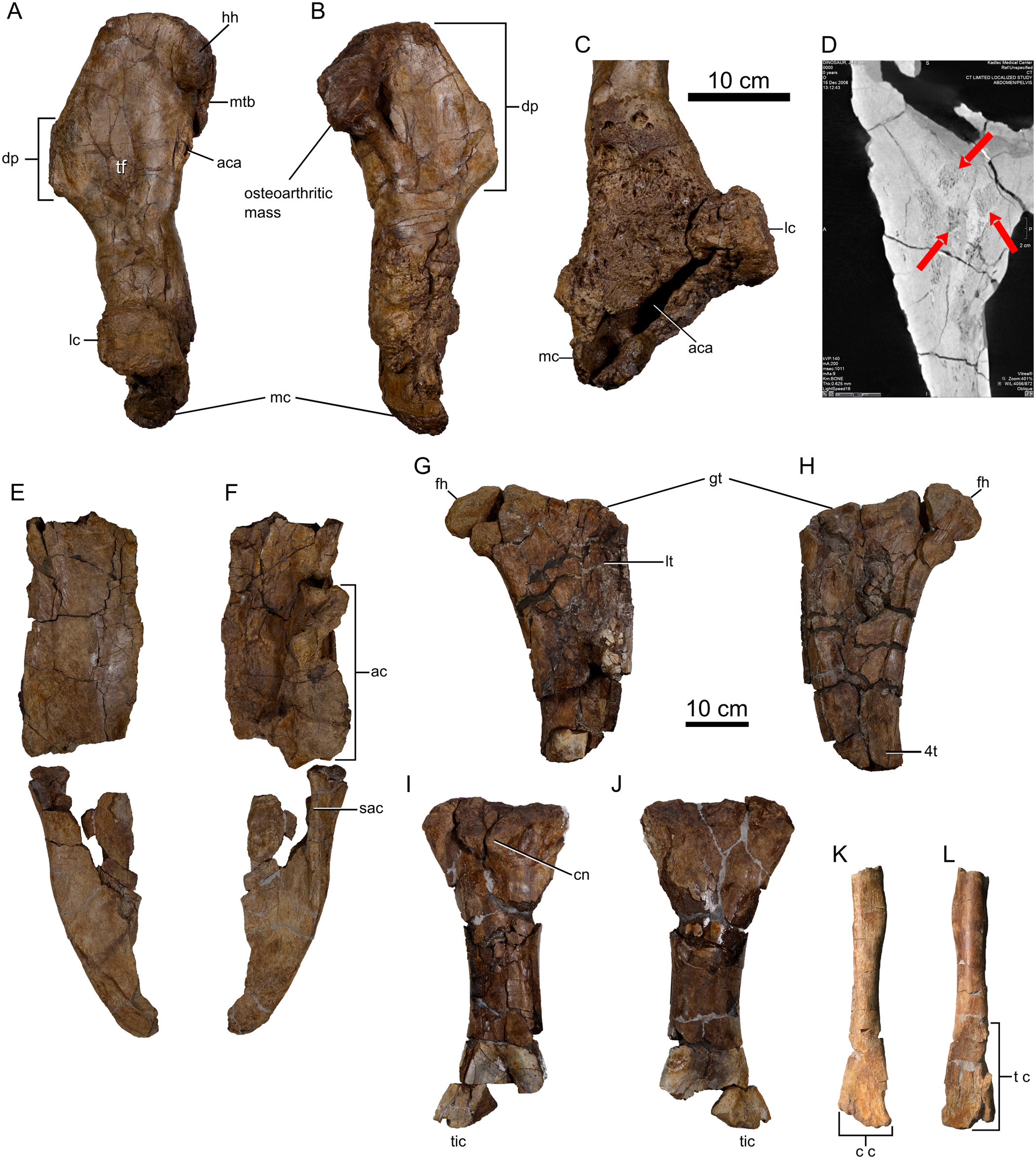 Appendicular elements of Spiclypeus shipporum gen et sp. nov. (CMN 57081). Left humerus in dorsal (A) and ventral (B) views; (C) detail of osteomyelitic infection at distal end of humerus; (D) CT image of distal left humerus showing bony sequestra (indicated by red arrows); left ilium in dorsal (E) and ventral (F) views; left femur in anterior (G) and posterior (H) views; left tibia in anterior (I) and posterior (J) views; left fibula in anterior (K) and posterior (L) views.